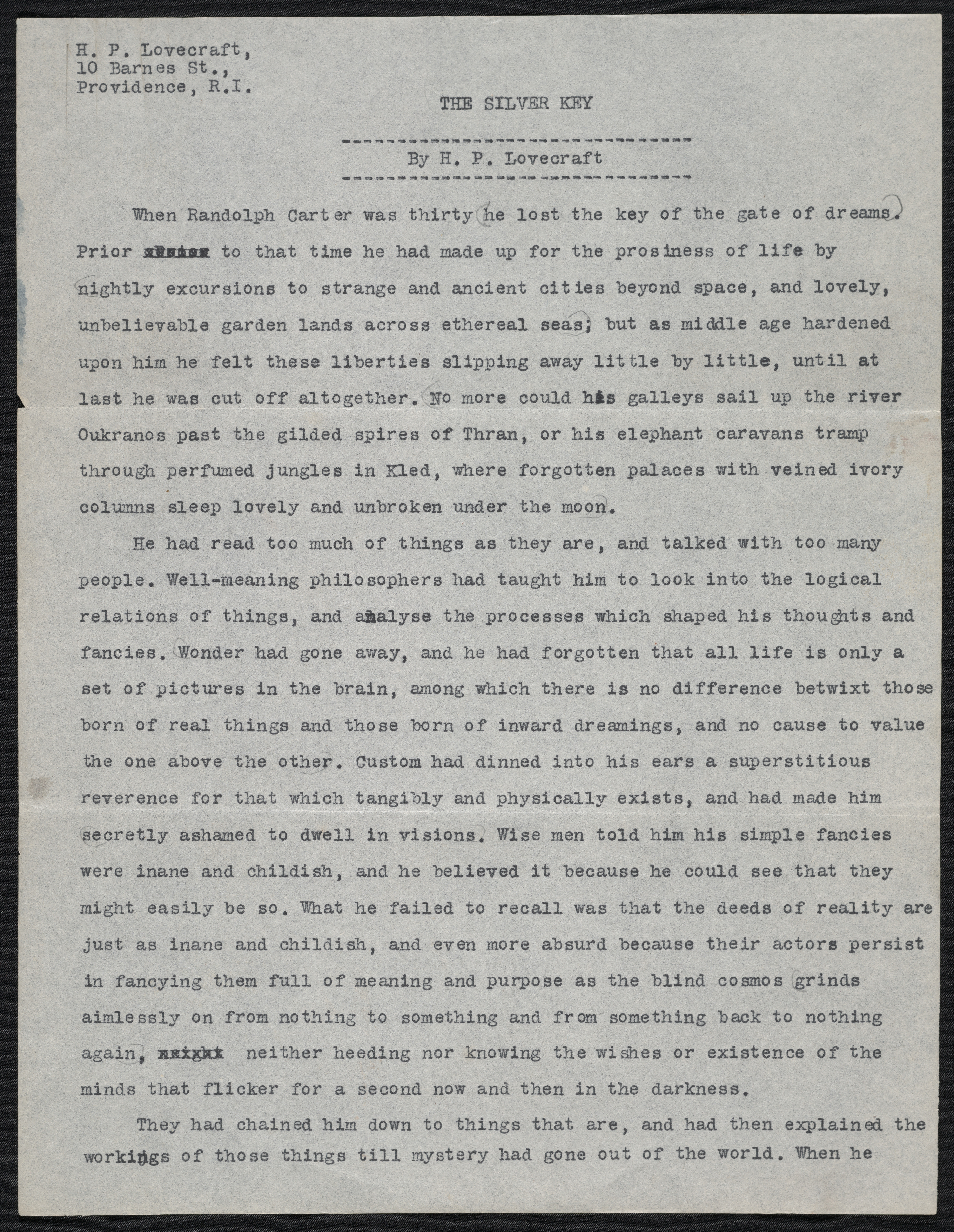 First page of the manuscript The Silver Key.